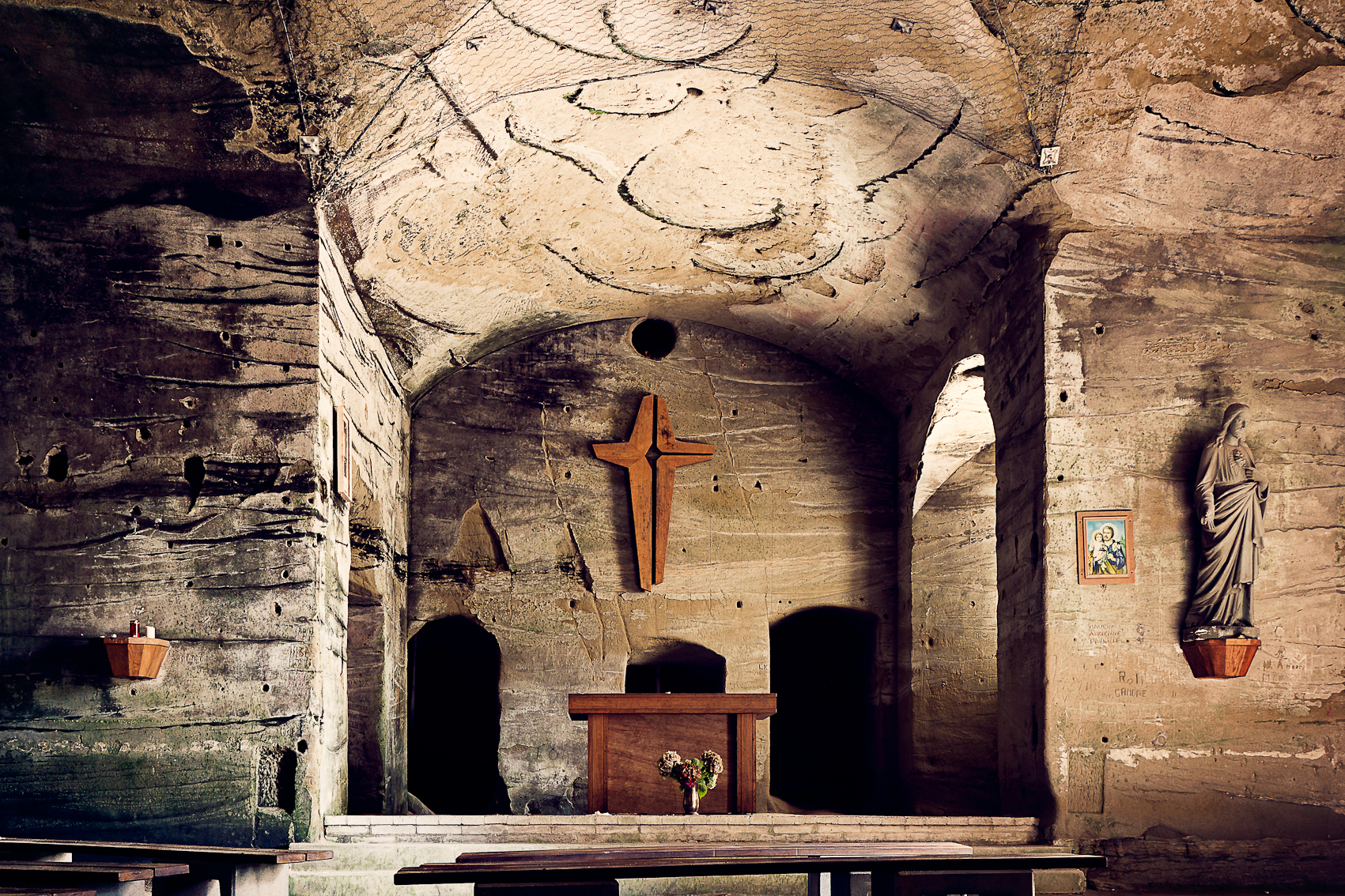 Magdalena Hermitage